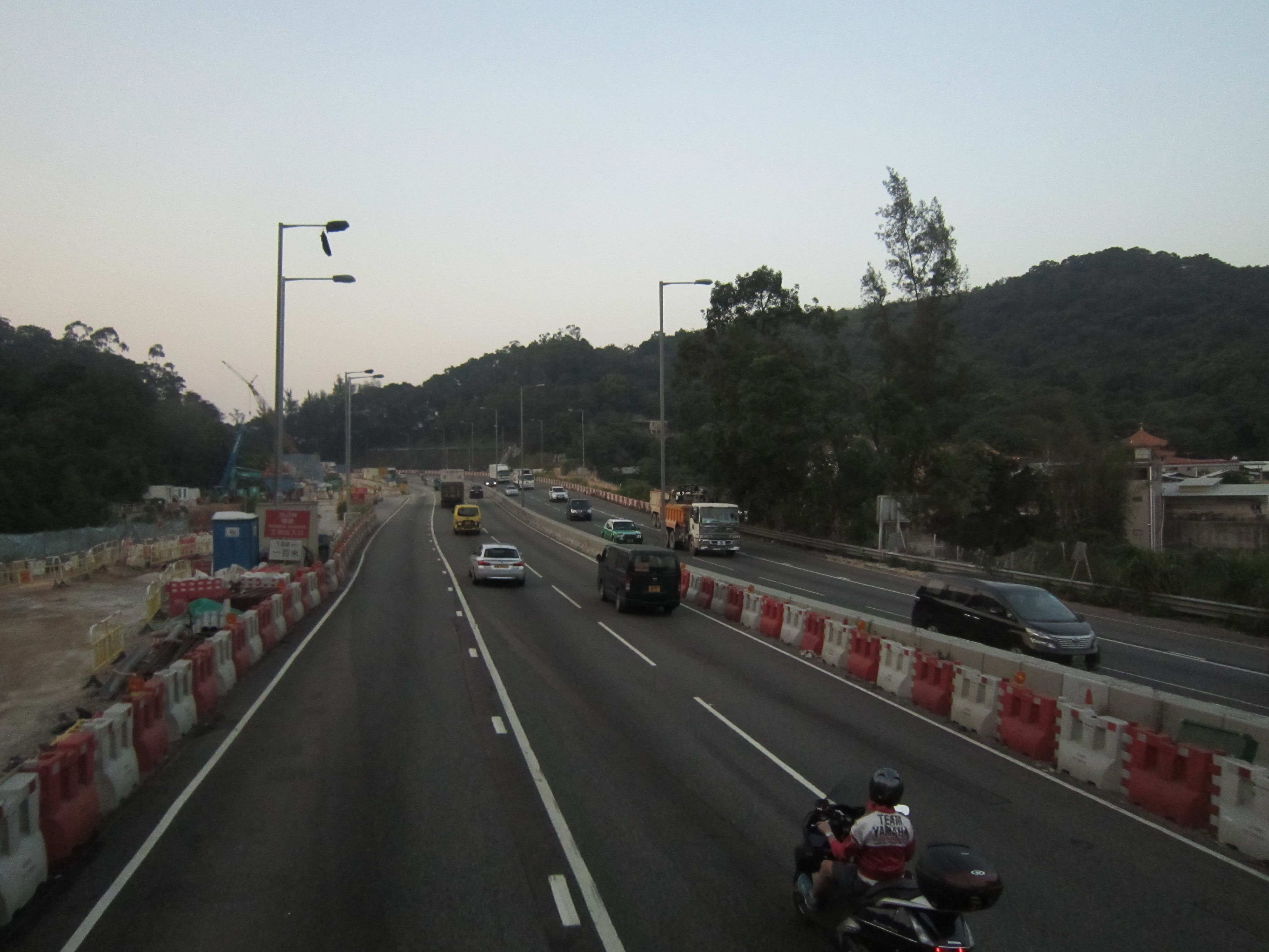 Tolo Highway Tai Po section under construction work